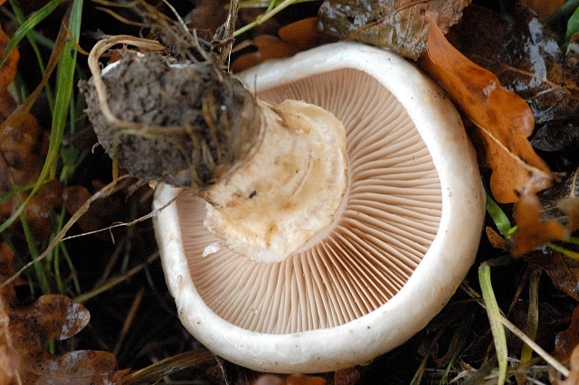 Chamaemyces fracidus from Commanster, Belgium. If you think this is a different taxon, please contact James Lindsey.